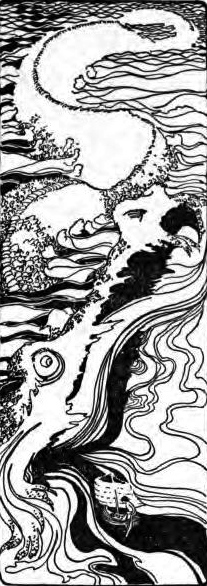 Stoor worm from Orkney folklore